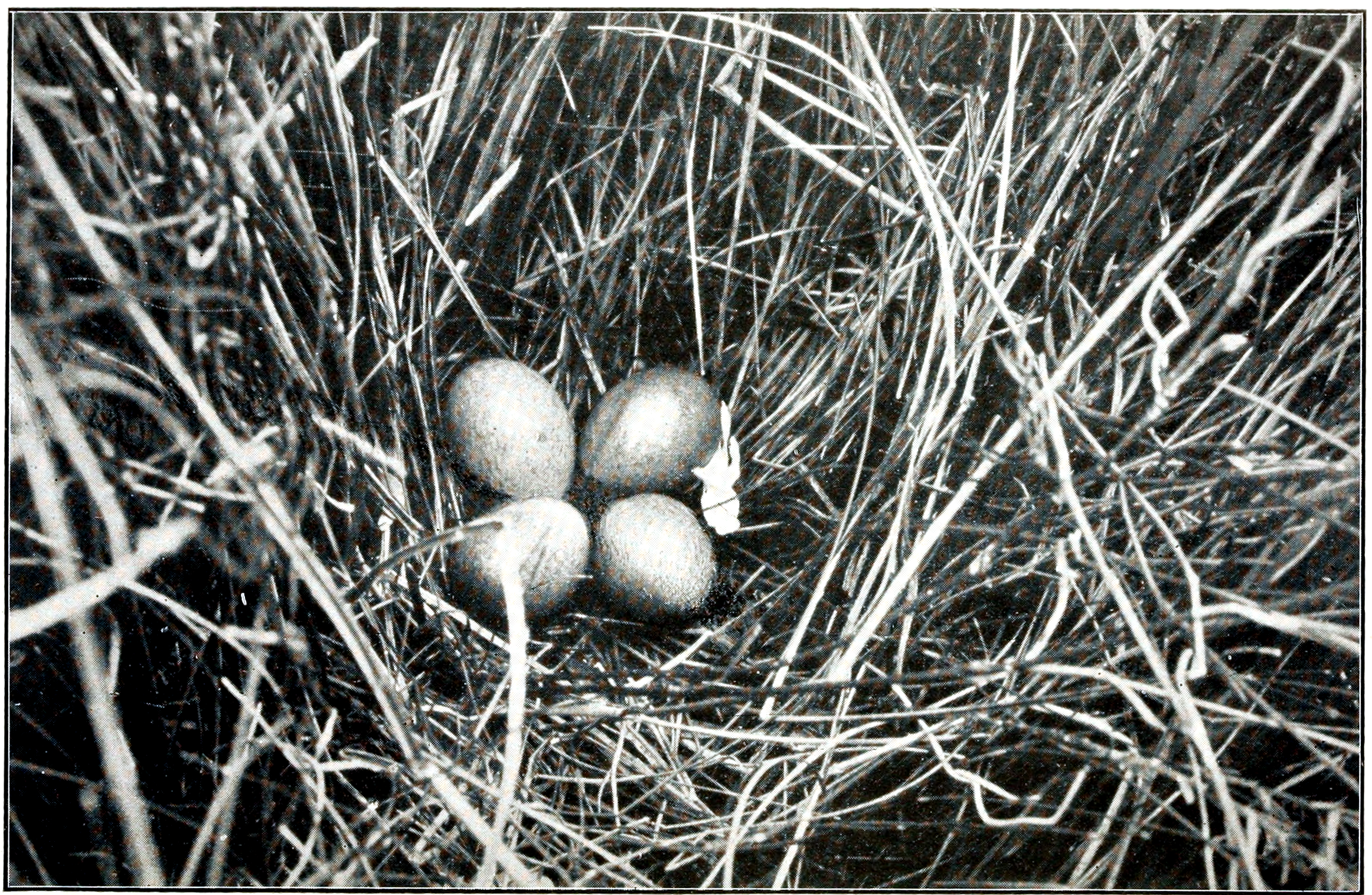 Plate 20 of The Emu an ornithological journal, illustrating Whitlock, F. Lawson (1913). "Spotless Crake and Western Ground-parrot". Emu. 13 (4): 202–05. , depicting "Nest of Spotless Crake (Porzana immaculata) in situ" [Porzana tabuensis ?]